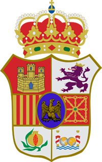 Coat of arms of Joseph I Bonaparte of Spain